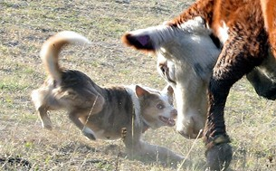 "Hunterslea Gundy"owned and trained by Enid Clark of Hunterslea Koolies Singleton NSW, red merle,white undercoat-short coat-blocking cattle